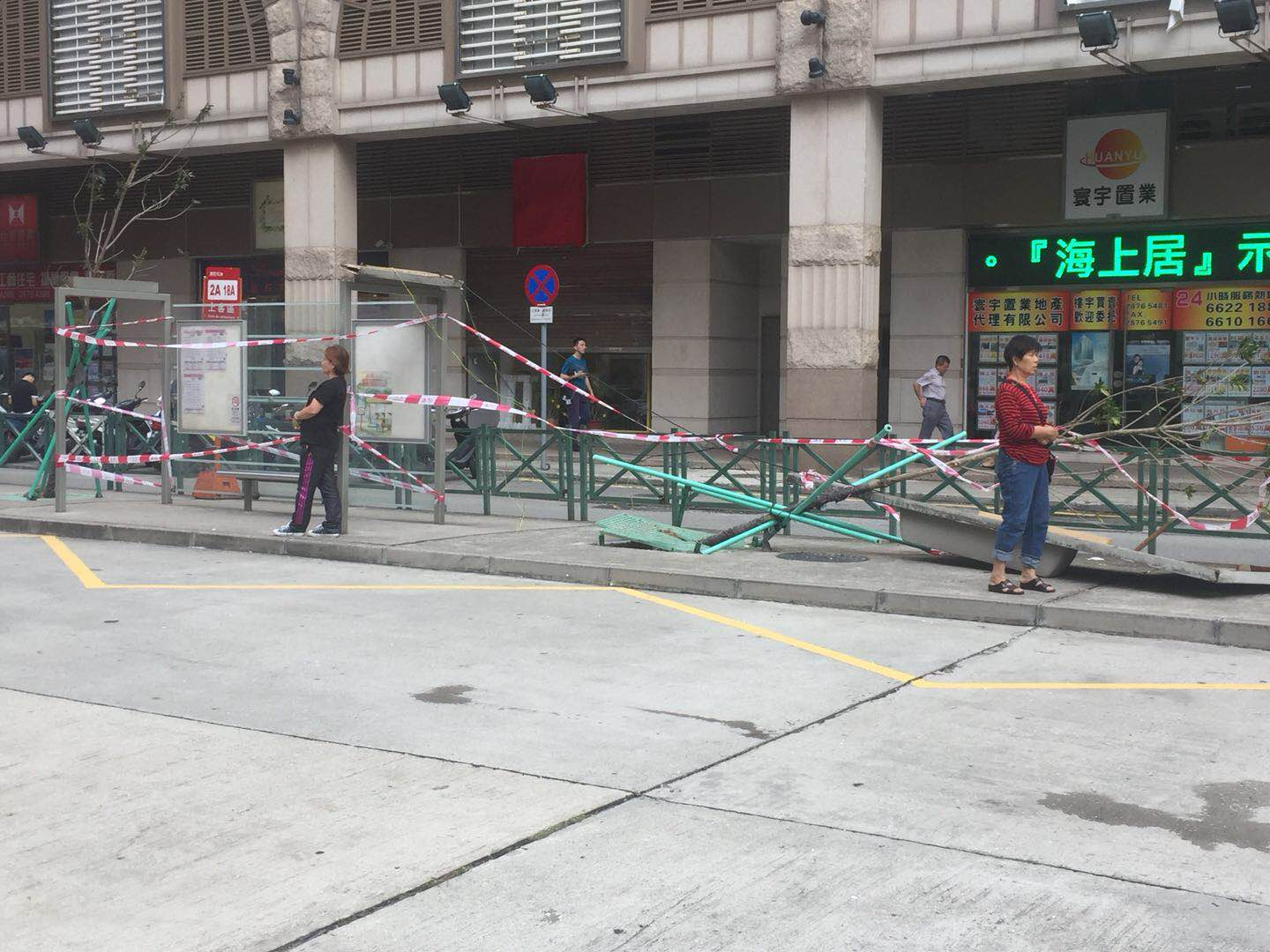 After the struck of Typhoon Mangkhut, The celling of Oriental Pearl Terminal Station waiting area got blow away.